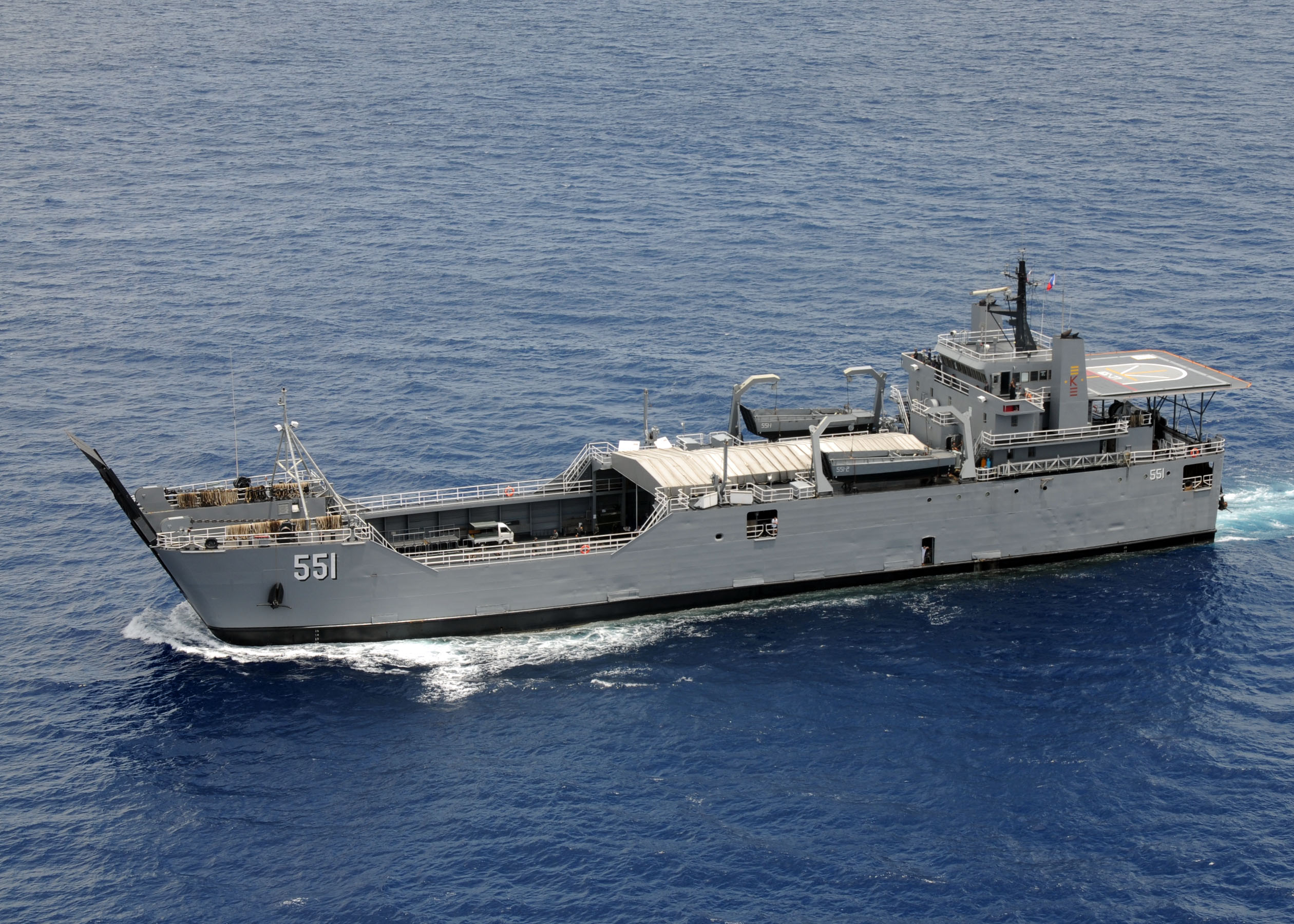 SOUTH CHINA SEA (April 21, 2009) The Armed Forces of the Philippines Navy logistics support vessel BRP Dagupan City (LC 551) maneuvers into position in a formation exercise with the amphibious assault ship USS Essex (LHD 2) during exercise Balikatan 2009. Artemio Ricarte is participating in Balikatan 2009, an annual combined, joint-bilateral exercise involving U.S. and Armed Forces of the Philippines personnel, as well as subject matter experts from Philippine civil defense agencies. (U.S. Navy photo by Mass Communication Specialist 2nd Class Mark R. Alvarez/Released)